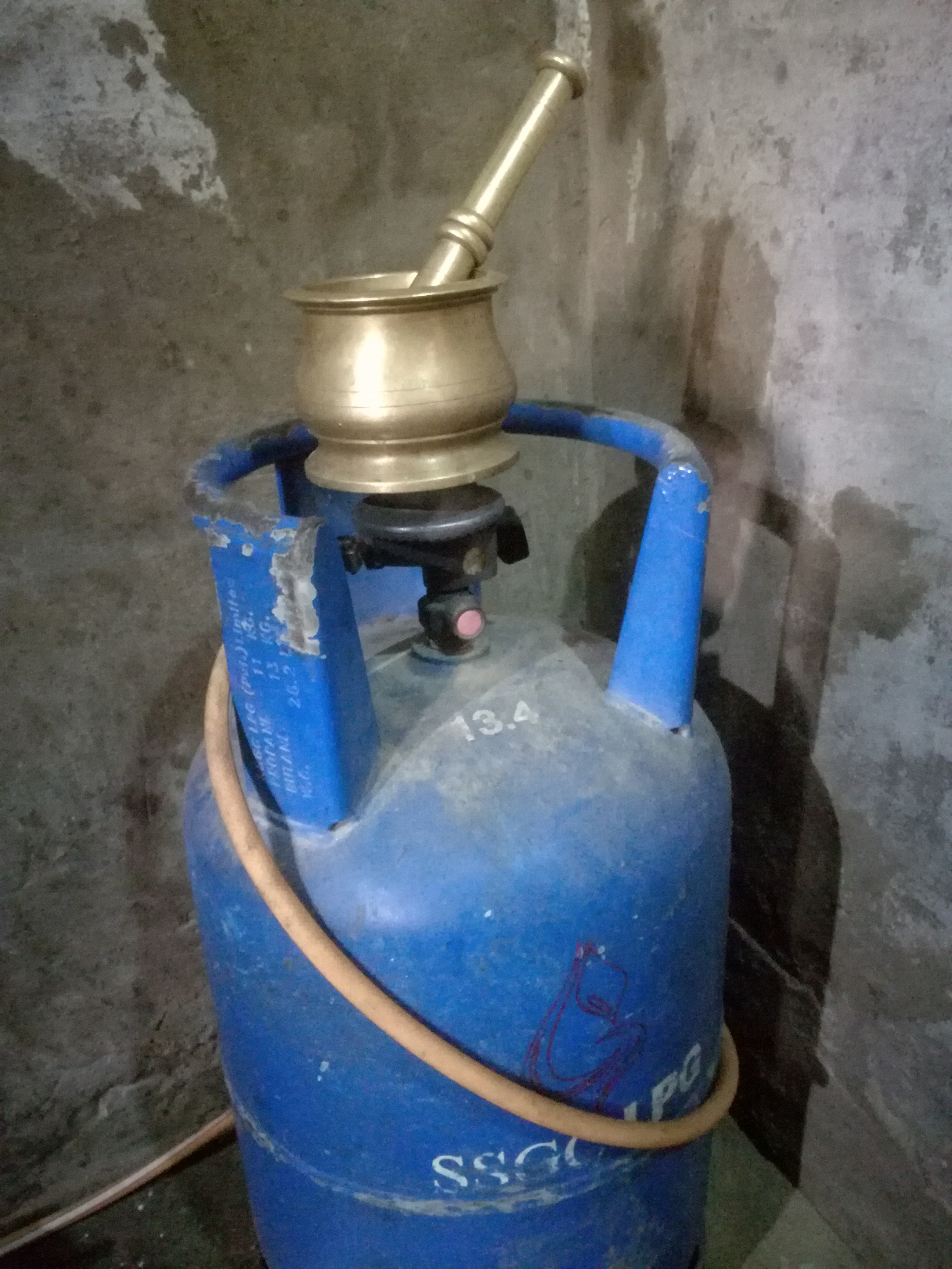 Jugaad in Tharparkar for avoiding gas leakage by using heavy weight objects. The nosel of cylinder mostly has fault so the valve doesn't fit tightly which results in gas leakage but keeping weight over it, the gas doesn't leak.